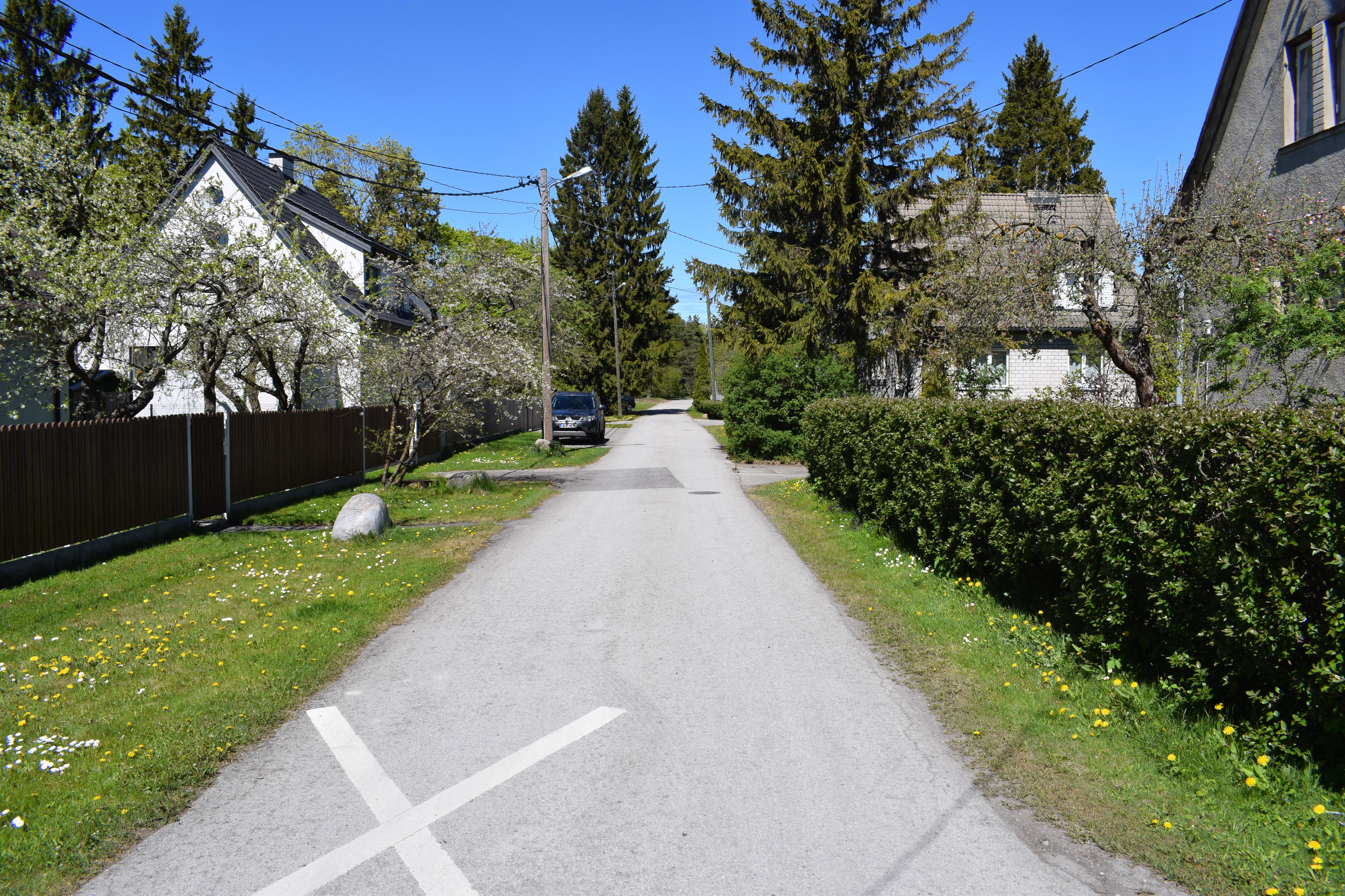 Osja tee